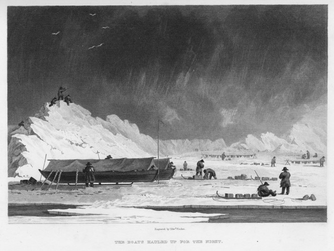 “The Boats Hauled Up for the Night,” Narrative of An Attempt to Reach the North Pole, in Boats Fitted for the Purpose, and Attached to His Majesty’s Ship Hecla, in the Year MDCCCXXVII, Under the Command of Captain William Edward Parry, 1828, From The Library at The Mariners’ Museum, G700.1827.P28 rare.